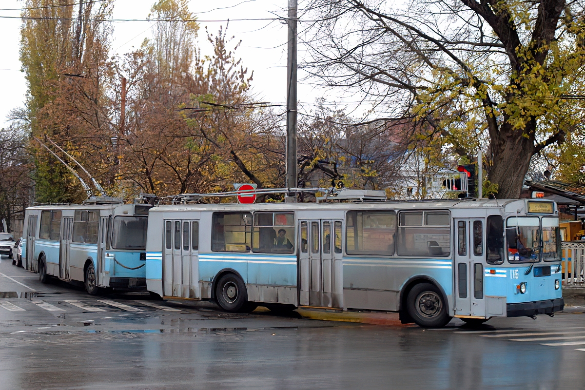 Multiple-unit (M.U.) trolleybus operation in Krasnodar, Russia. M.U. operation involves coupled sets of trolleybuses, in which both vehicles are motorized but only one (normally the second one) is drawing power directly from the overhead wires. The set pictured here is composed of model-ZIU-9 trolleybuses 116 and 117.